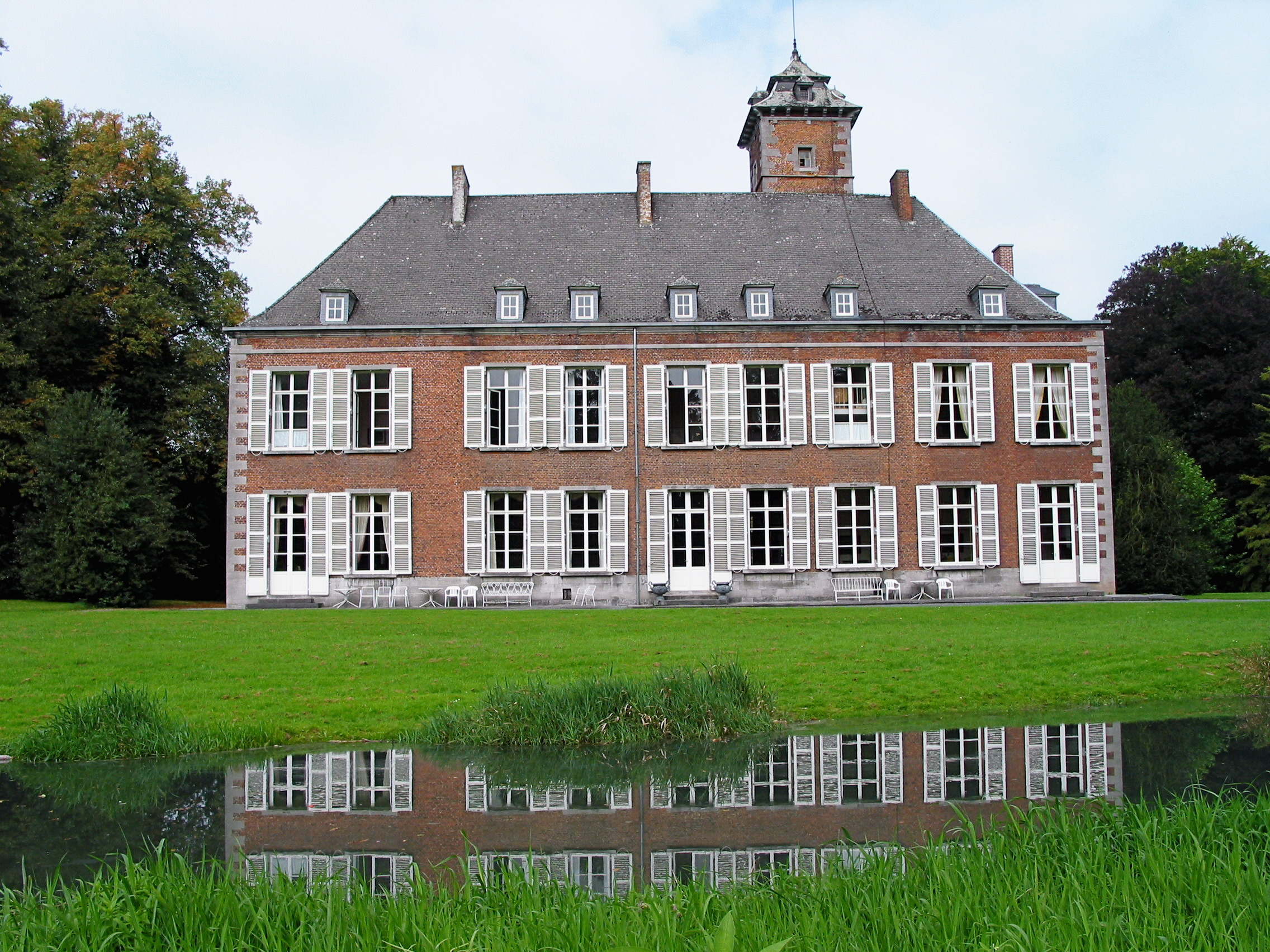 Écaussinnes-d’Enghien (Belgium), Southeastern façade of the « la Follie » castle (XVIth century).